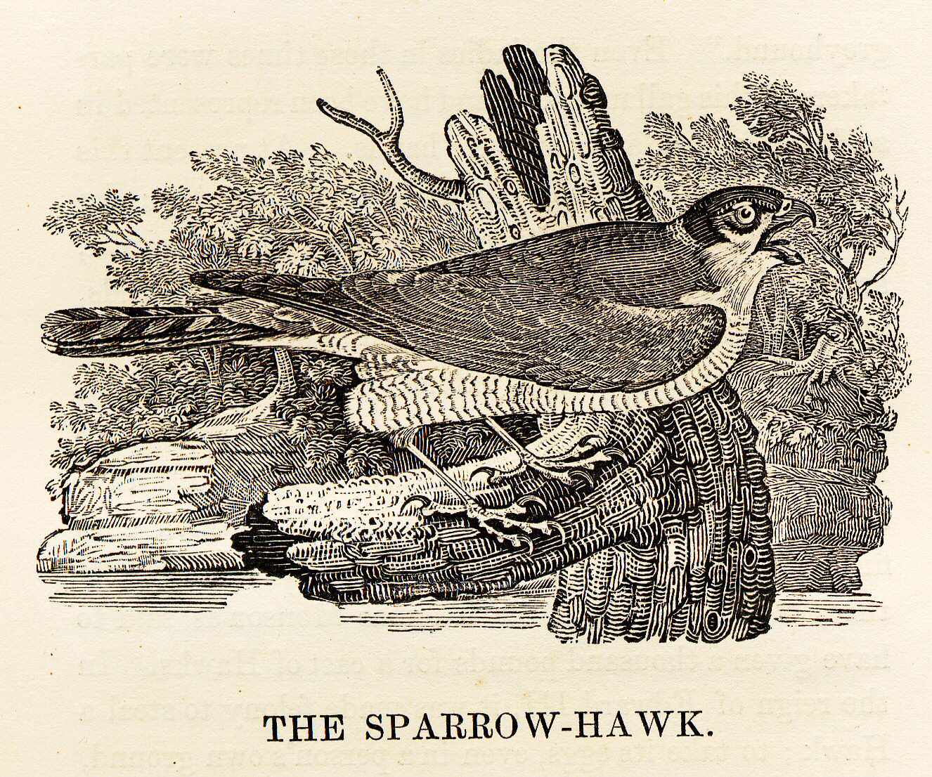 Woodcut by Thomas Bewick in History of British Birds 1797-1804